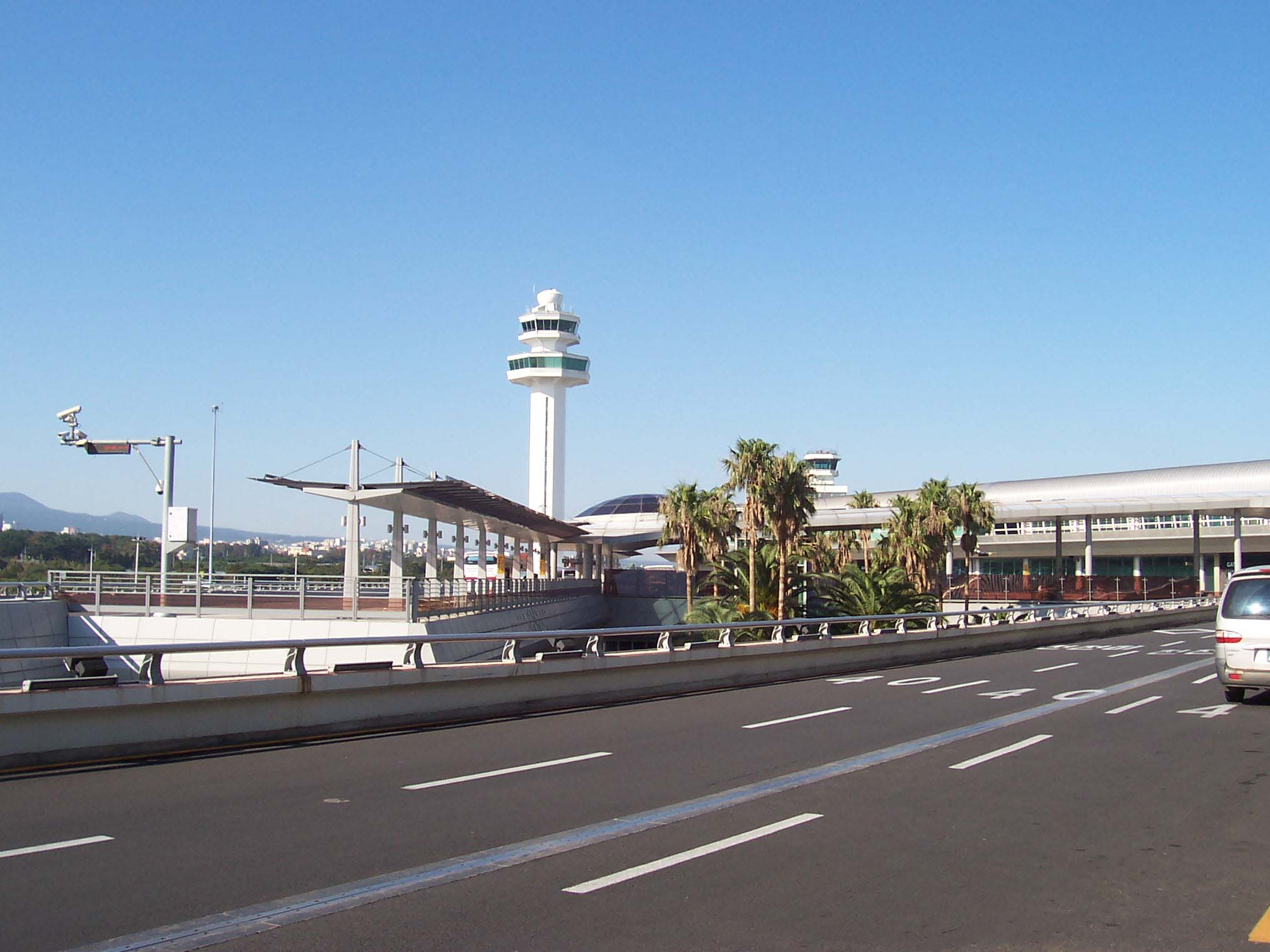 Jeju International Airport